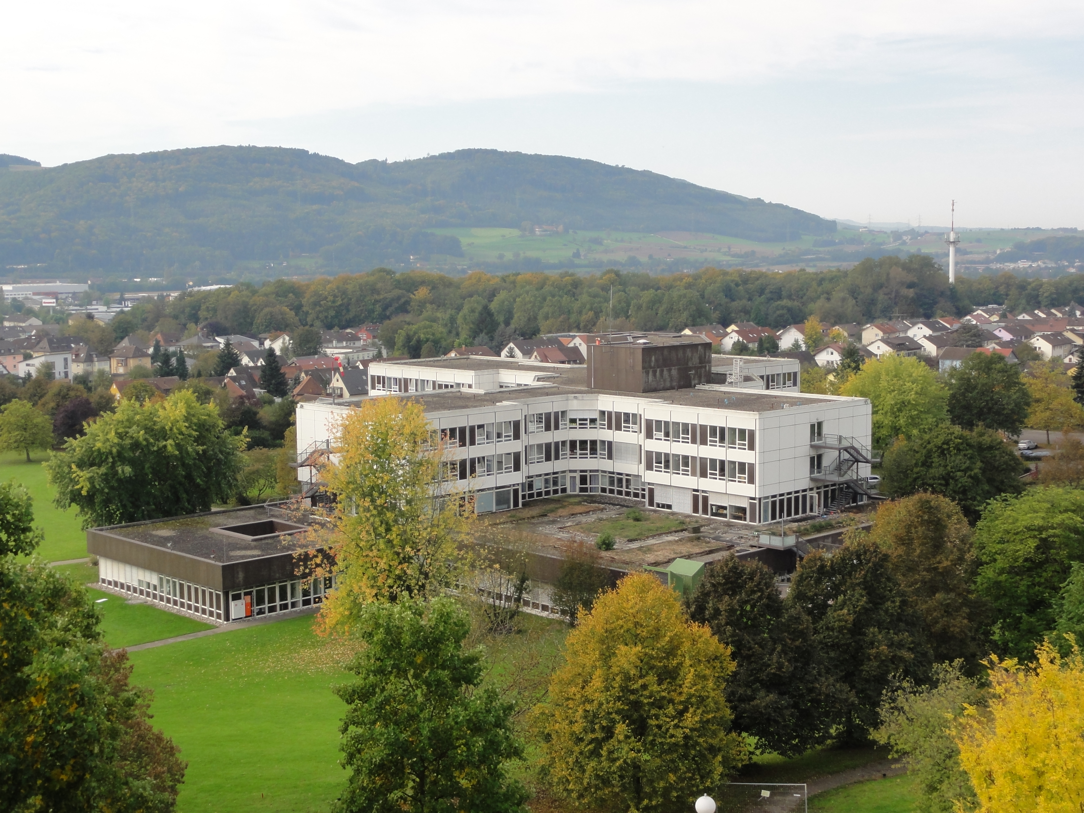 Bad Säckingen — Spital Bad Säckingen EXIF data with GPS coordinates and mag. north. GPS data may be inaccurate.